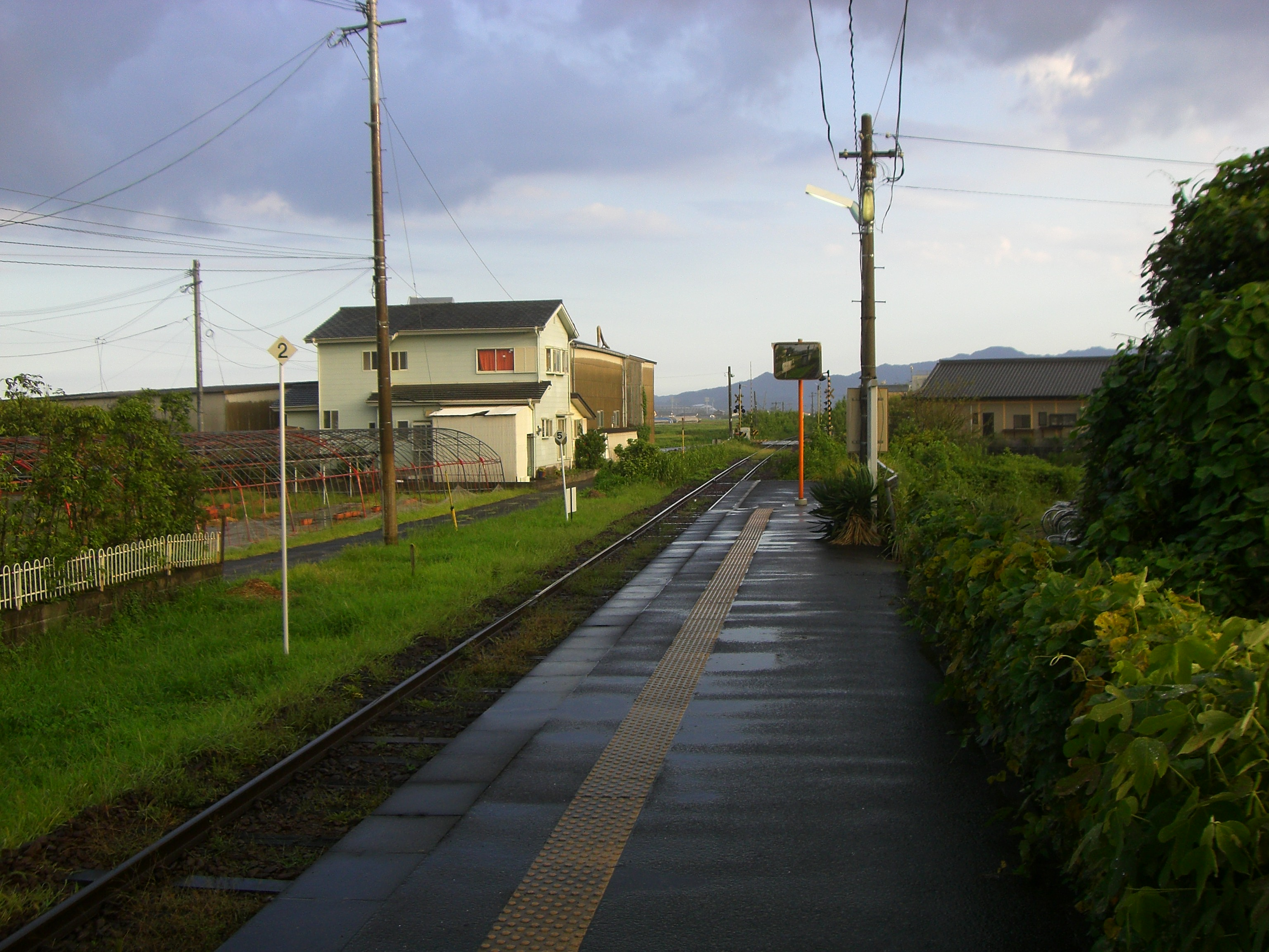 JR Kyushu Nichinan Line Minamikata Station, facing southward